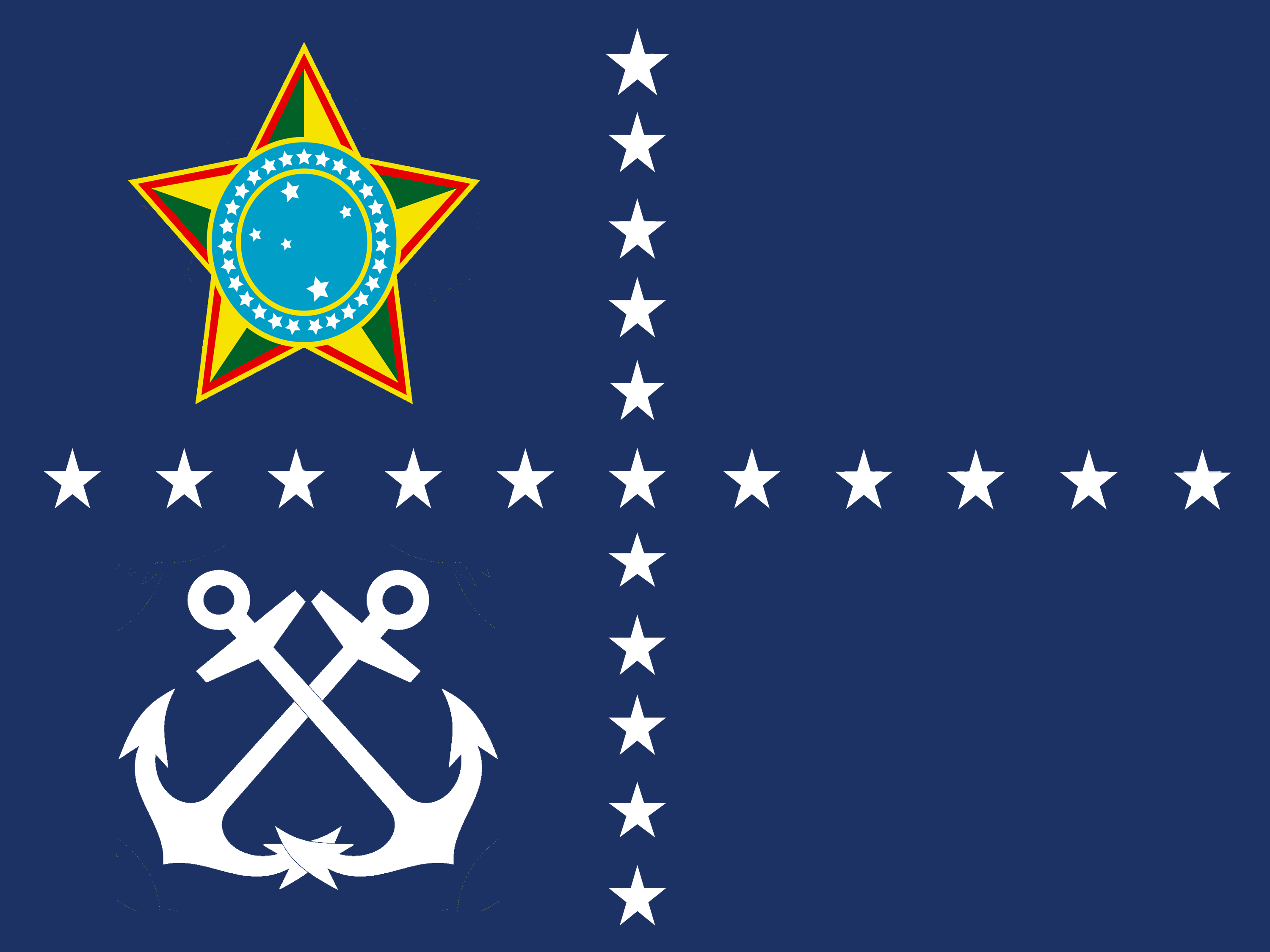 Flag of the Minister of the Navy of Brazil 1917